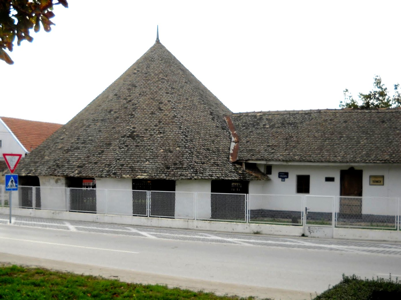 View of the Suvača horse mill, Kikinda, Serbia. Monuments of Culture of Exceptional Importance.